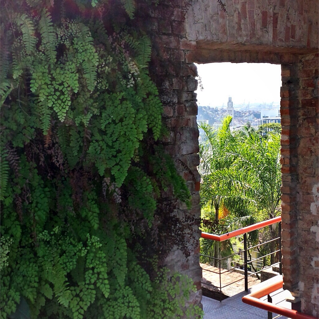 Adiantum capillus-veneris on a wall at Parque das Ruínas, Santa Teresa, Rio de Janeiro, Brazil.